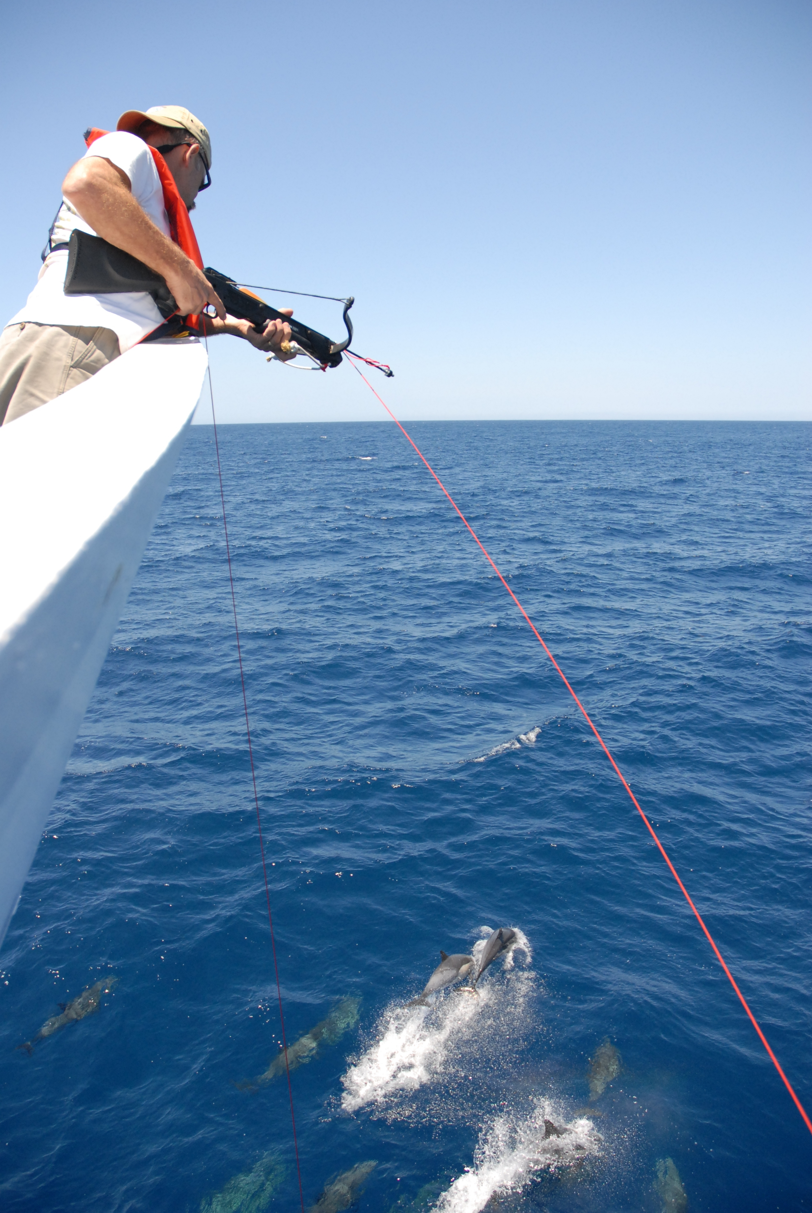 Fisheries scientist obtaining tissue samples from common dolphins (Delphinus spp.) swimming in the bow wave of the NOAA Ship DAVID STARR JORDAN.